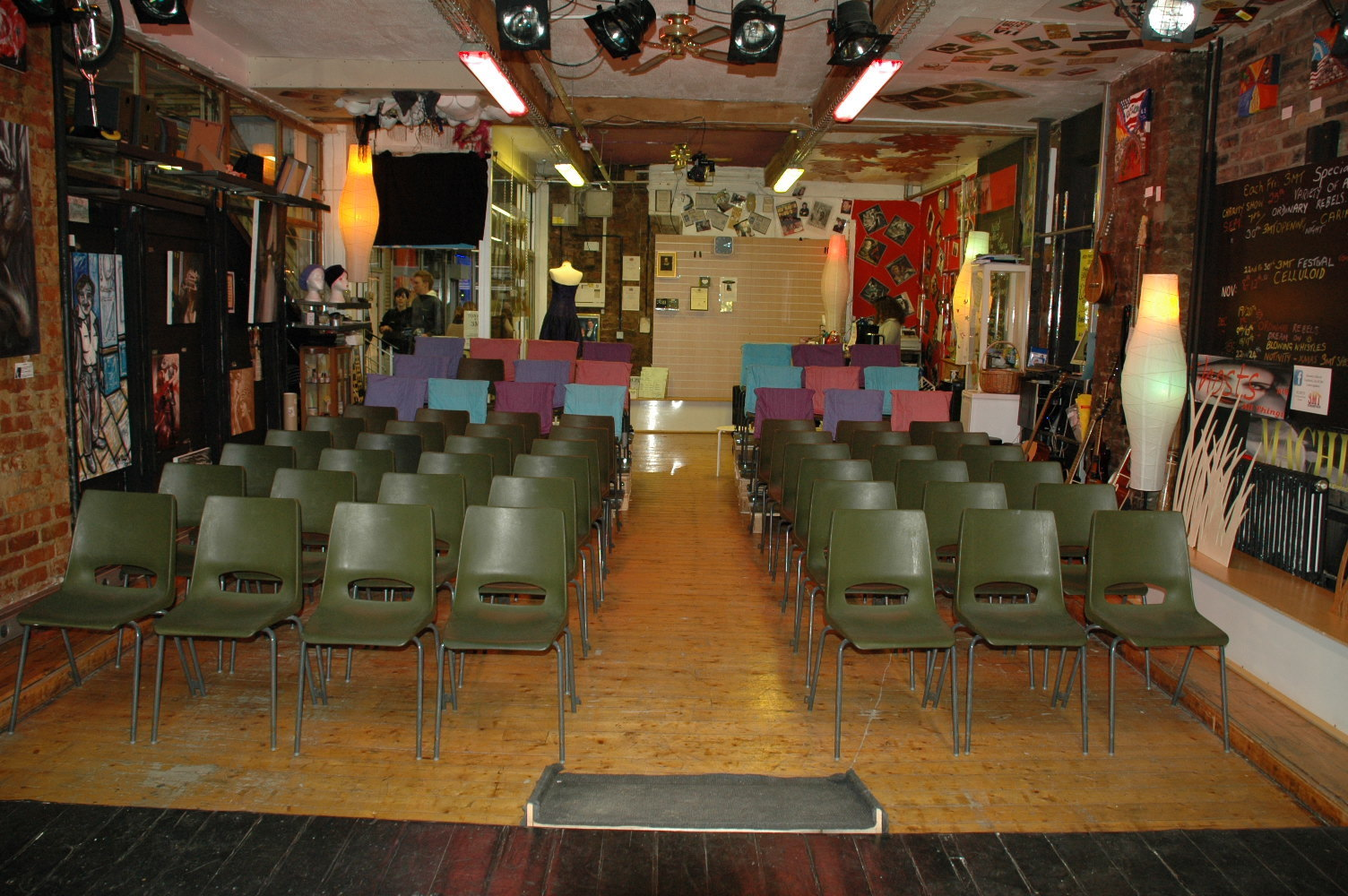 The Green Chairs 2011